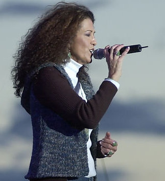 Rita Coolidge performing an outdoor concert in Seattle, 2002 Item 131474, Fleets and Facilities Department Imagebank Collection (Record Series 0207-01), Seattle Municipal Archives.